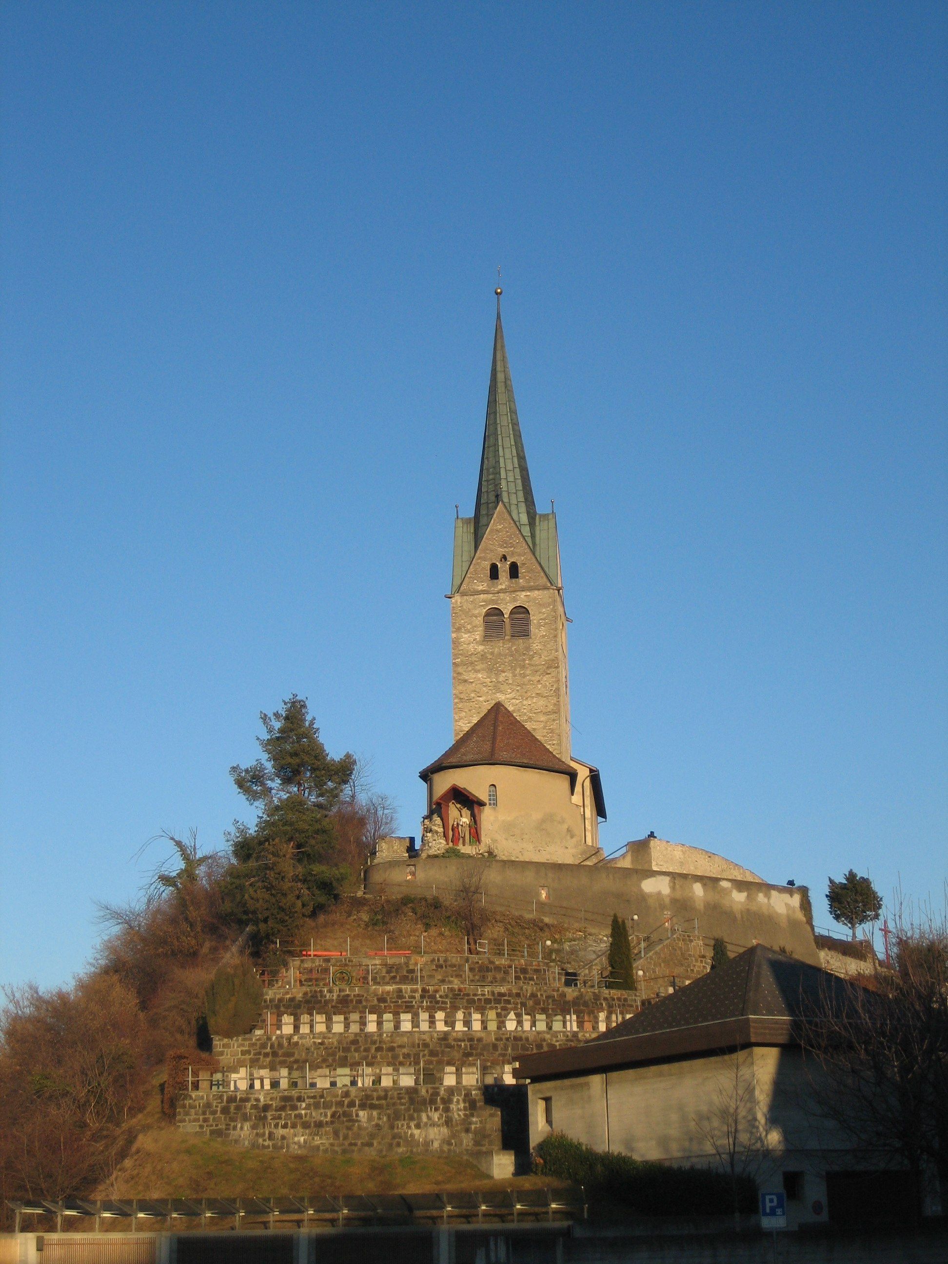 Domat/Ems Catholic Church of St. John the Baptist